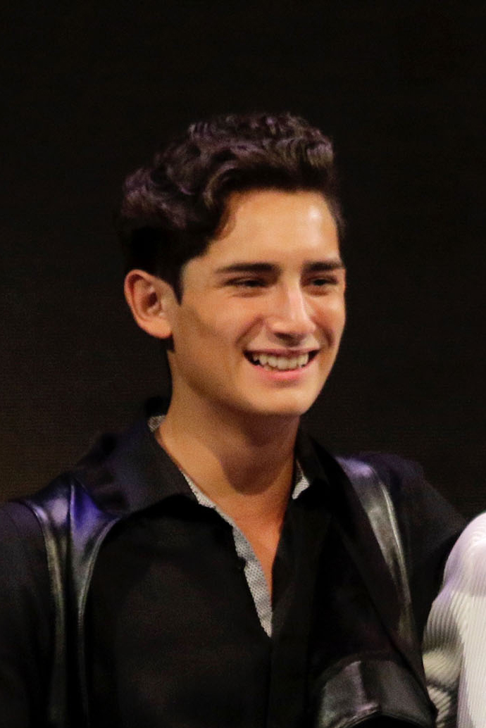 Thursday, 16 may, 2019. Juan Osorio, Emilio Osorio and Joaquin Bondoni receiving a recognition in Mexico City for their TV show "My husband's family". Picture by Tania Victoria / Secretaria de Cultura de la Ciudad de Mexico.